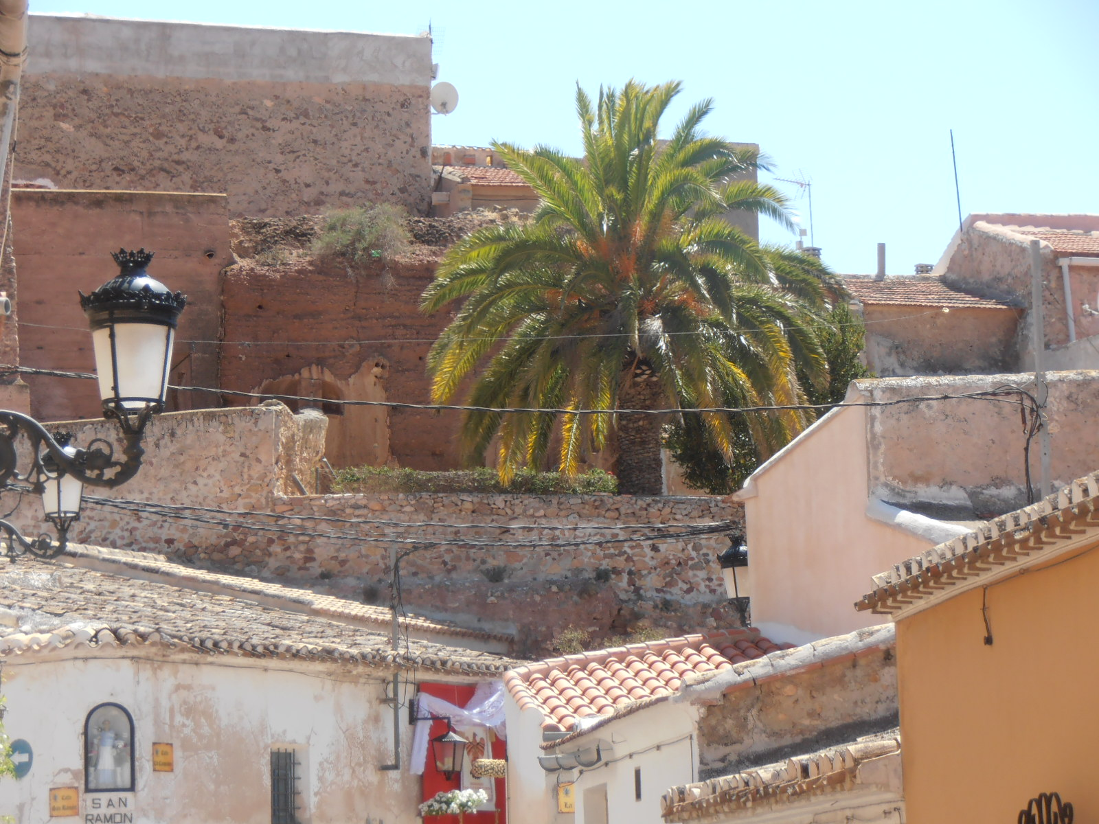 Houses in Aledo